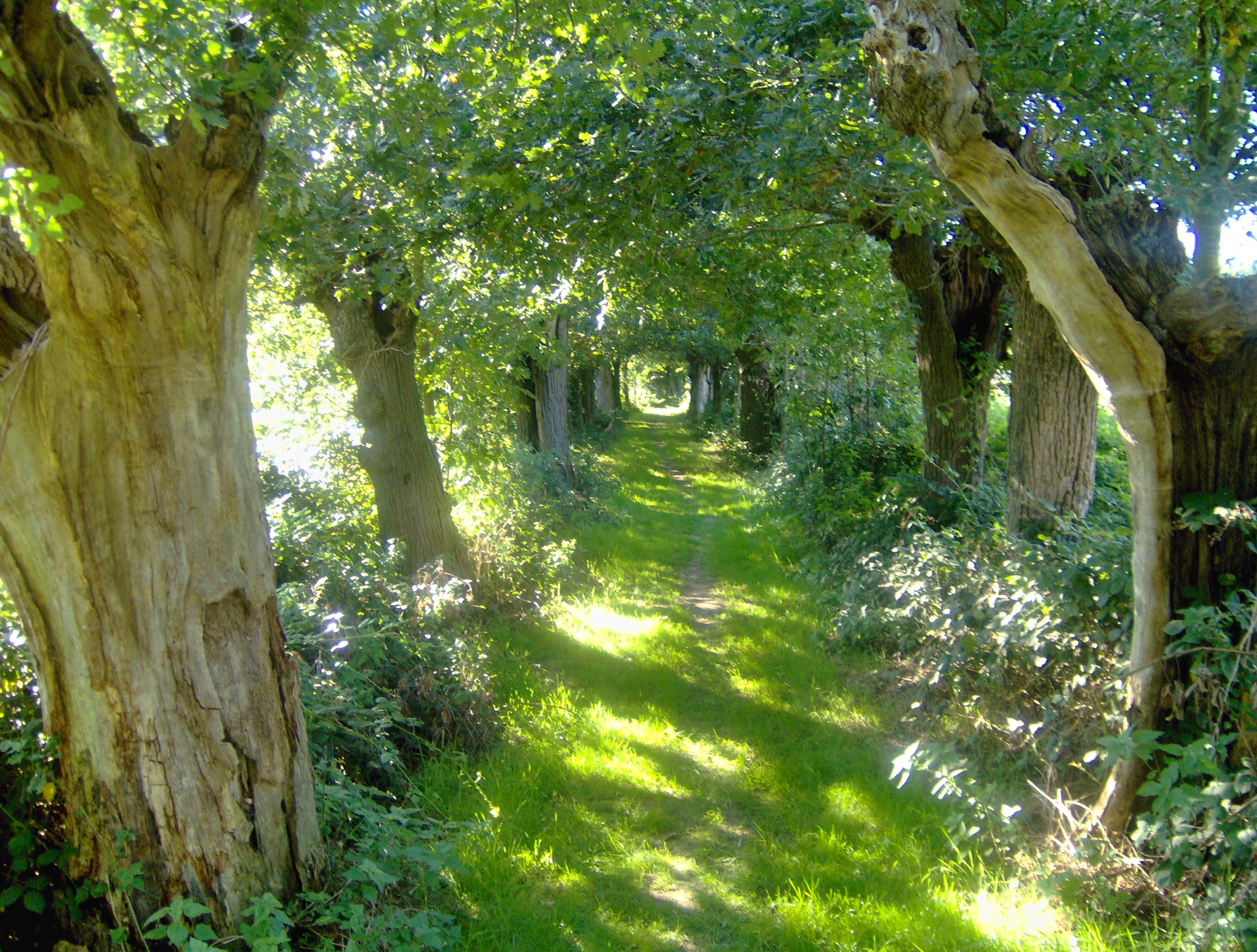 The Kloppendiek, an alley with old oaks, in Zwillbrock, in the municipality of Vreden, North Rhine-Westphalia, Germany. It probably was the old road Dutch catholics from the places of Eibergen and Groenlo in the Achterhoek in Gelderland took to practice their religion without being prosecuted, as worshipping catholicism was forbidden in the 17th and 18th century in The Netherlands.